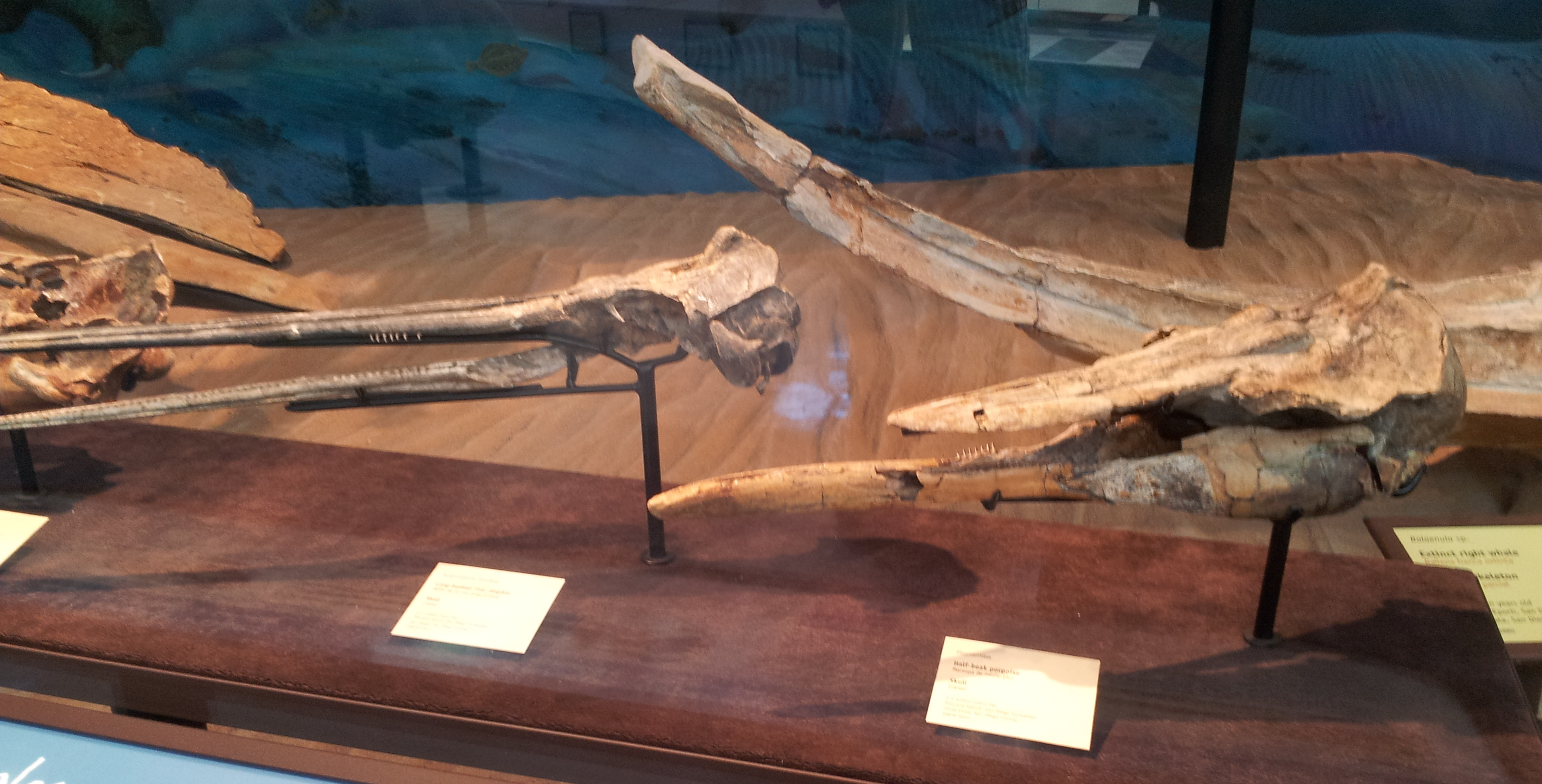 Parapontoporia sternbergi and Semirostrum ceruttii (Skimmer/half beak porpoise).